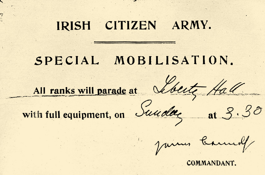 On Easter Monday morning in 1916, Lieutenant James McCormack, the Commanding Officer of the Baldoyle, Sutton and Howth branch of the ICA, led his battalion of men to Liberty Hall in Dublin to join the uprising against the oppression of the British Empire, about 1,200 members of the Irish Volunteers and Irish Citizen Army mustered at several locations in central Dublin. Among them were members of the all-female Cumann na mBan. A joint force of about 400 Volunteers and Citizen Army gathered at Liberty Hall under the command of Commandant James Connolly.